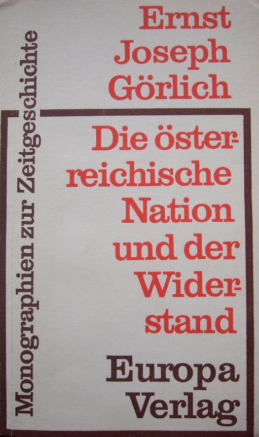 Book cover of Ernst Joseph Görlich's "Die österreichische Nation und der Widerstand" (The Austrian nation and the restistance). Publisher: Europa Verlag.